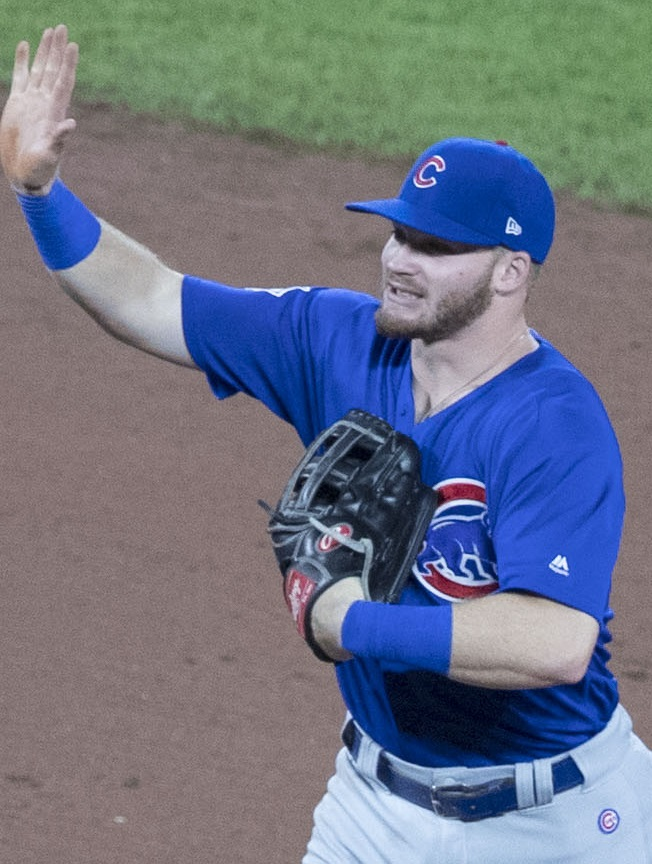 Cubs at Orioles 7/14/17